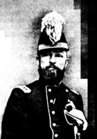 Ferdinand Lecomte